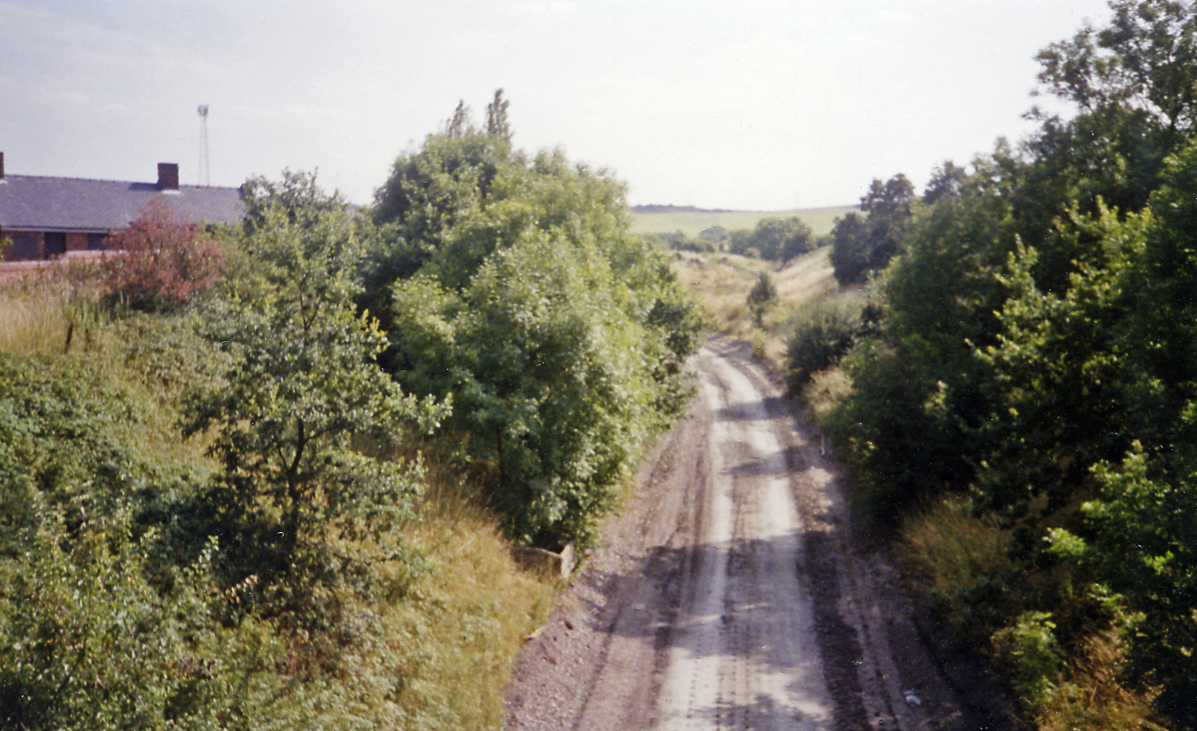 Site of Arkwright Town station, 1993. View eastward, towards Langwith Junction and Lincoln: ex-GCR (Lancashire, Derbyshire & East Coast line), which was closed completely Chesterfield (Market Place) - Langwith Junction (Shirebrook North) from 3/12/51 and for passengers the eastern portion on to Pyewipe Junction (Lincoln) from 19/9/55.